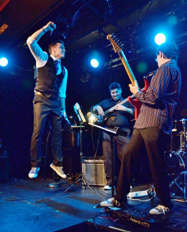 Trio JB